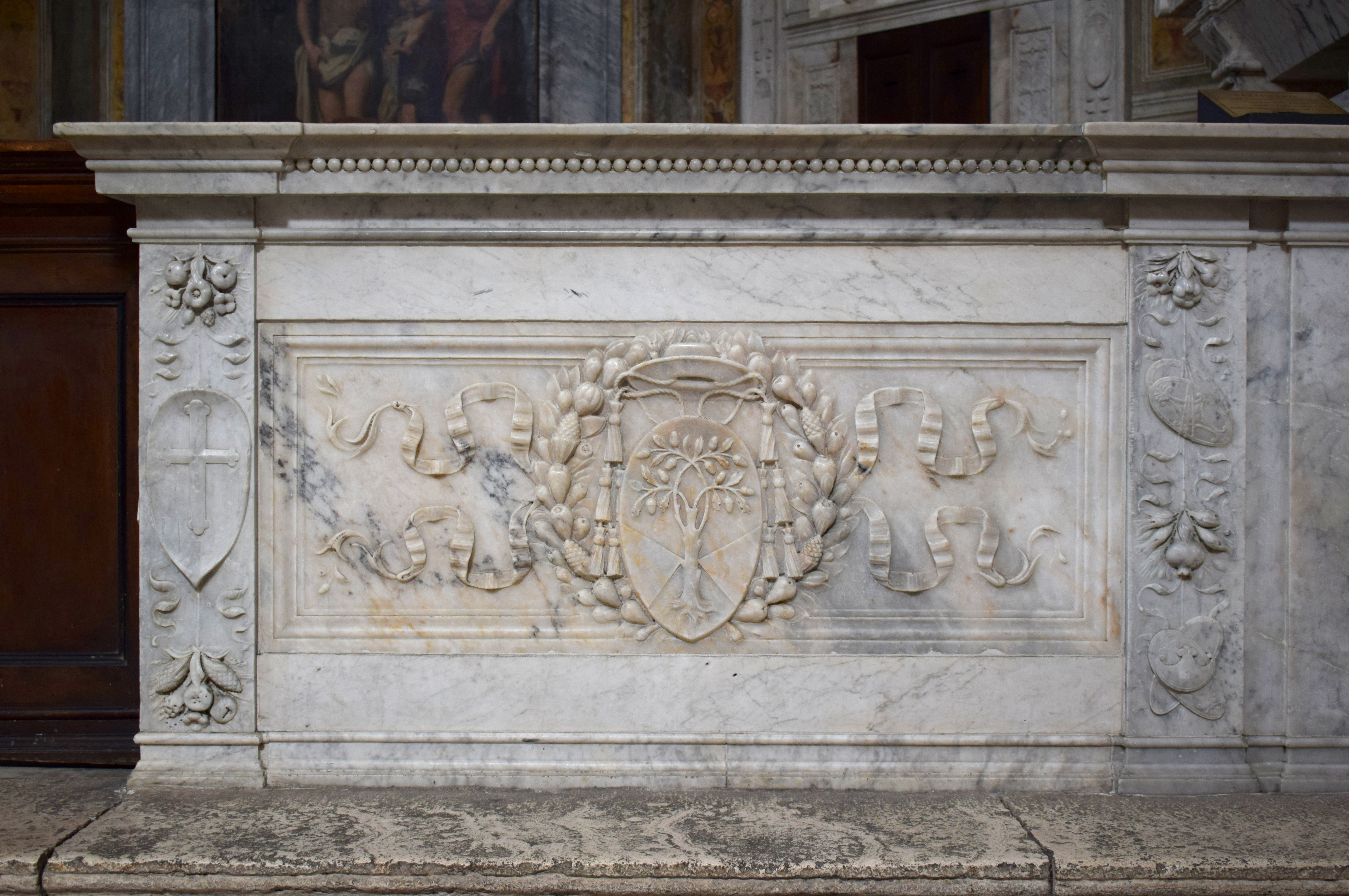 15th-century parapet with the coats of arms of a Della Rovere cardinal in the Montemirabile Chapel in the Basilica of Santa Maria del Popolo.